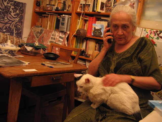 Maria Braunstein (b. 1942), Polish translator